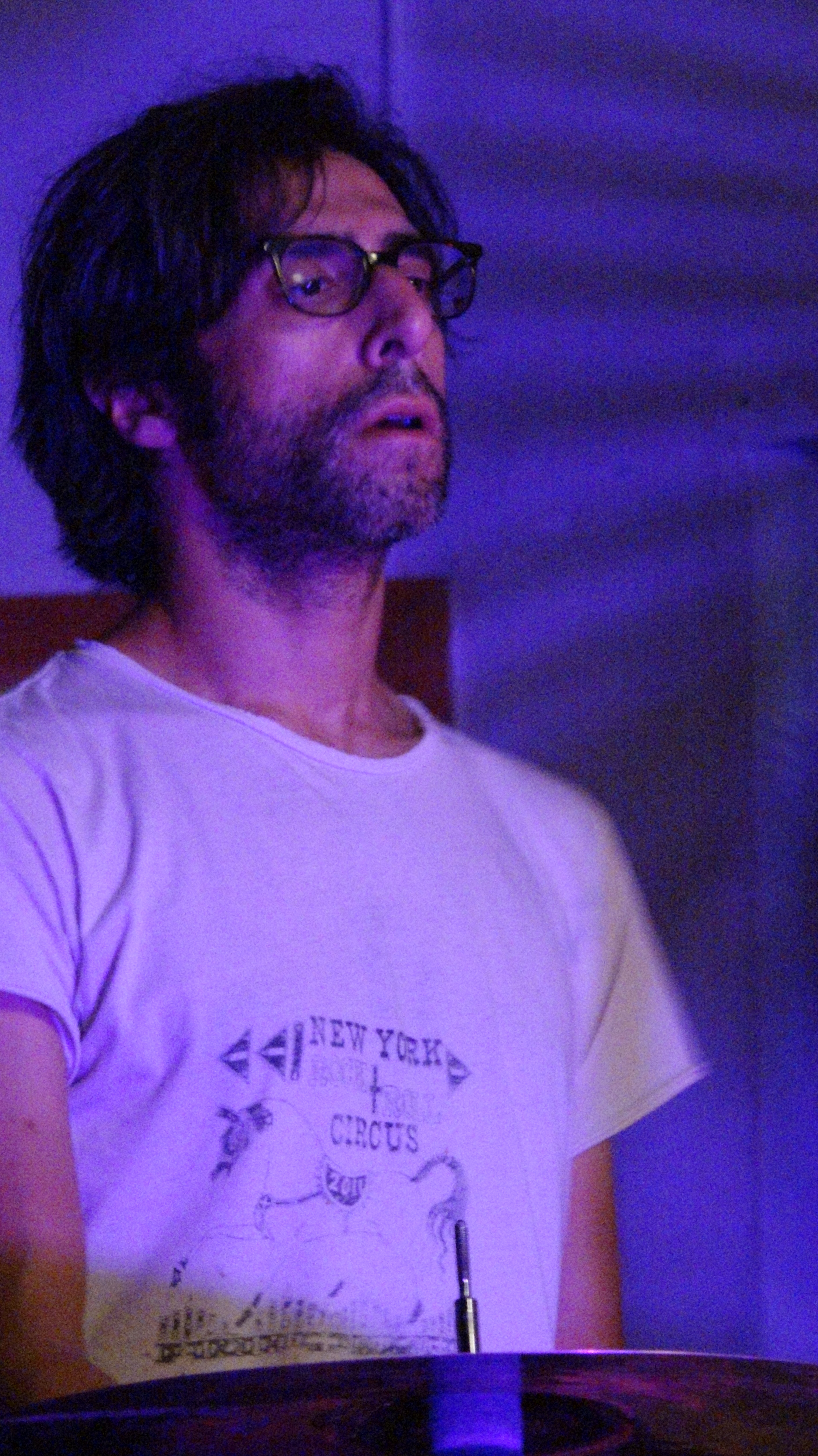 Brian Chase at Trans-Pecos in New York City